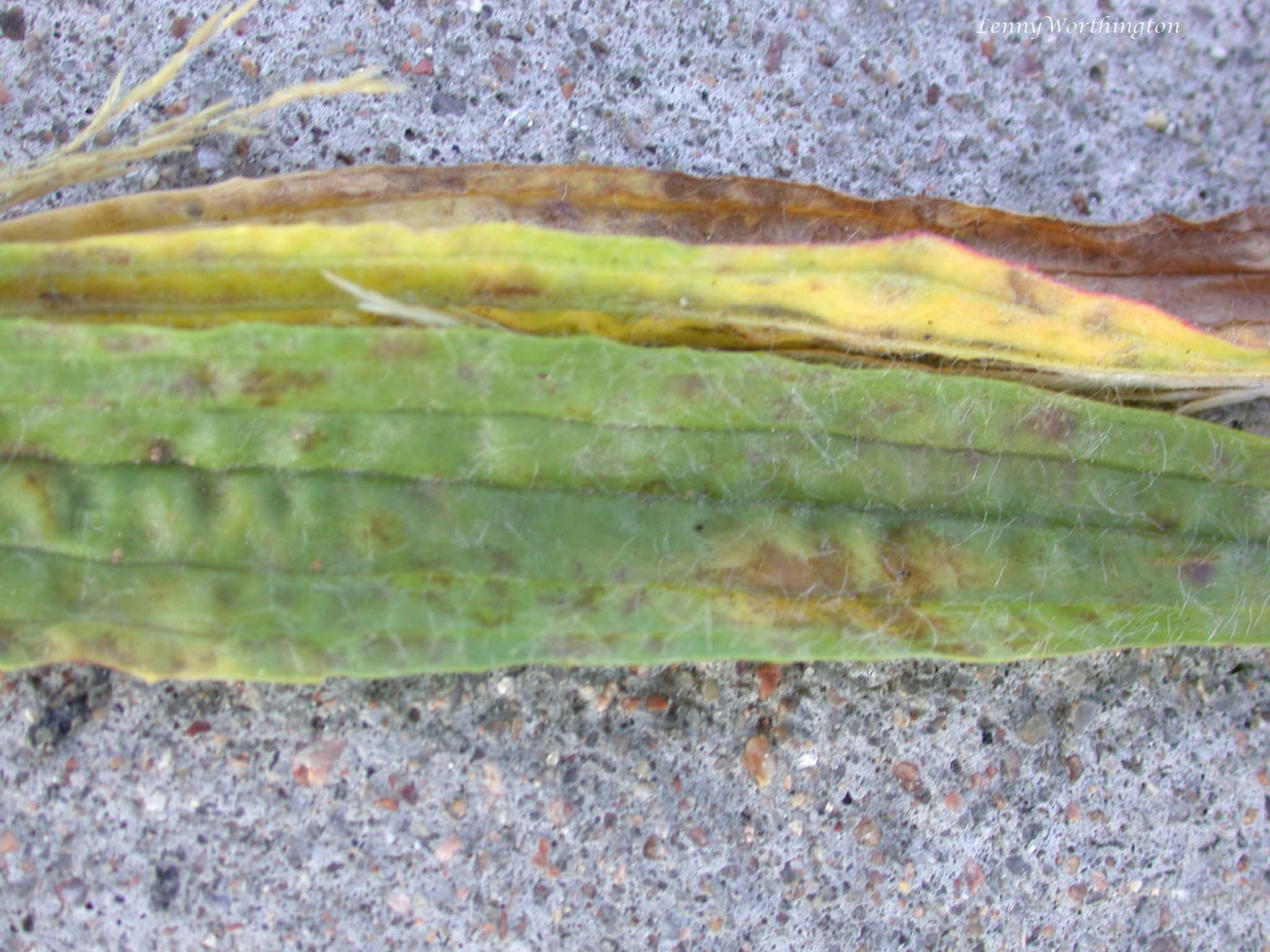 Len Worthington Ditylenchus dipsaci on Ribwort Plantain Plantago lanceolata